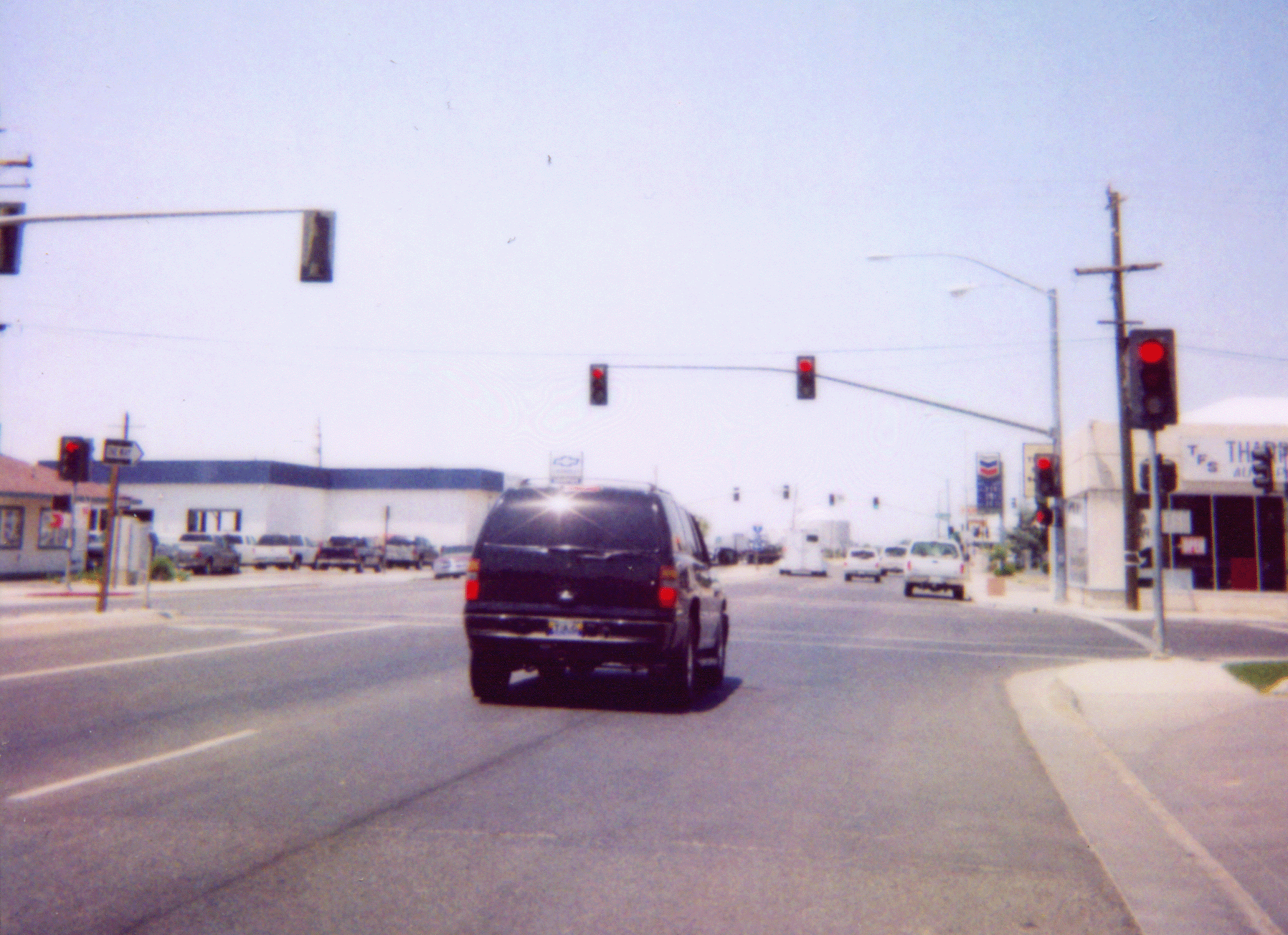 Firebaugh, the intersection of SR33 and 13th St. — in Fresno County, California. Please credit the photographer, David Jordan, when using this image.